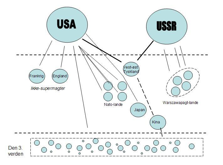 "Balance of terror" - bipolarity during World War II